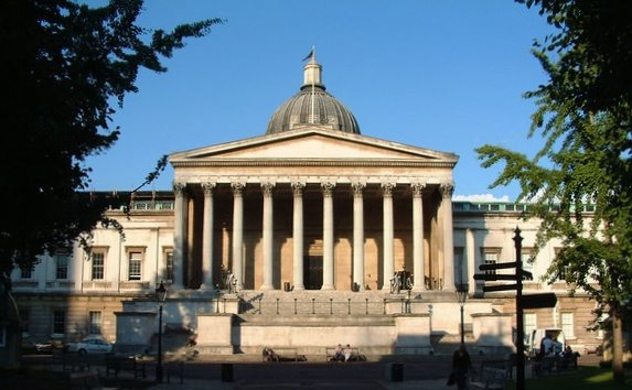 University College London (image for Wikimania 2007 bid)